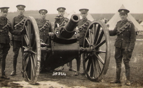 British Territorial Force gunners and BL 5 inch Howitzer. The photograph appeared on a postcard published by A E Marett of Shrewton, and probably shows Rollestone Camp, west of Lark Hill on Salisbury Plain between 1910 and late 1914, i.e. before the unit went to war. The gunners are believed to be from a Warwickshire unit.